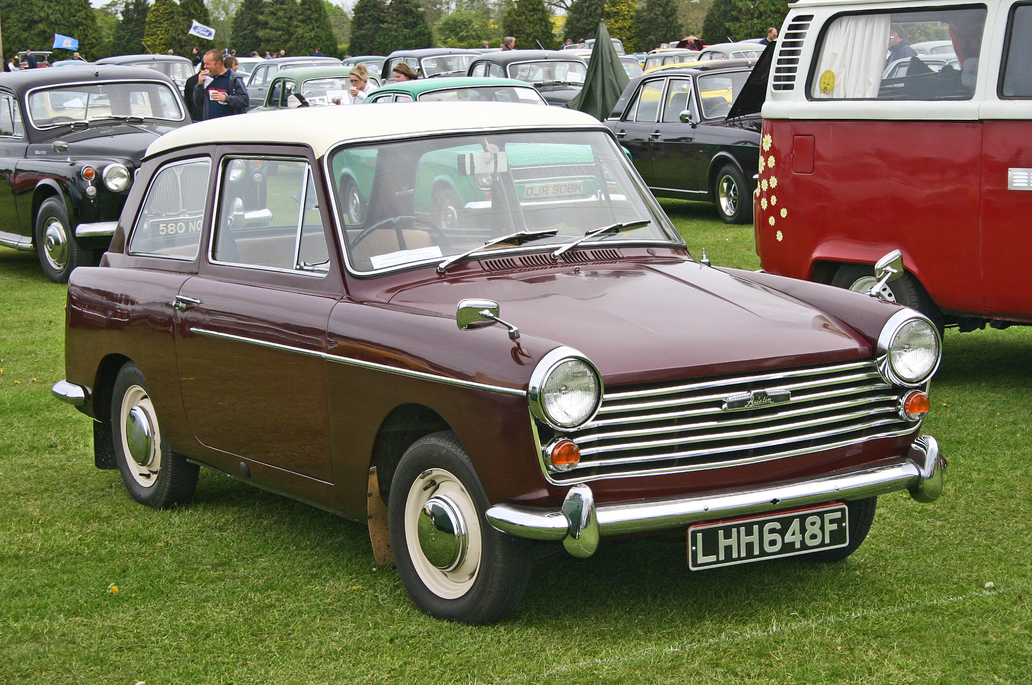 Larger engined 1098cc Austin A40 MkII with revised grille